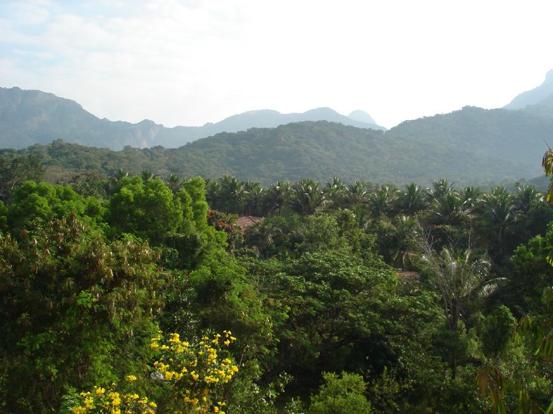 Coimbatore district countryside